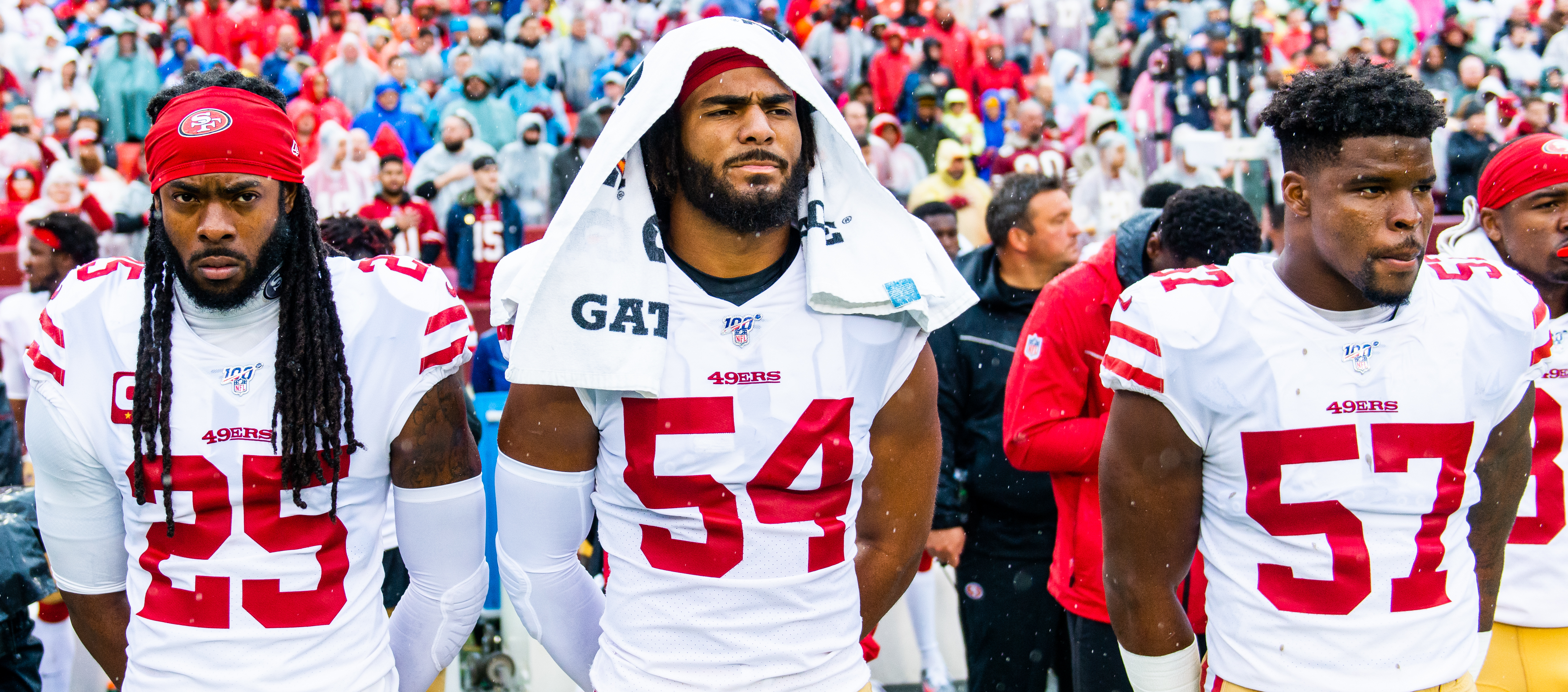 In 2019